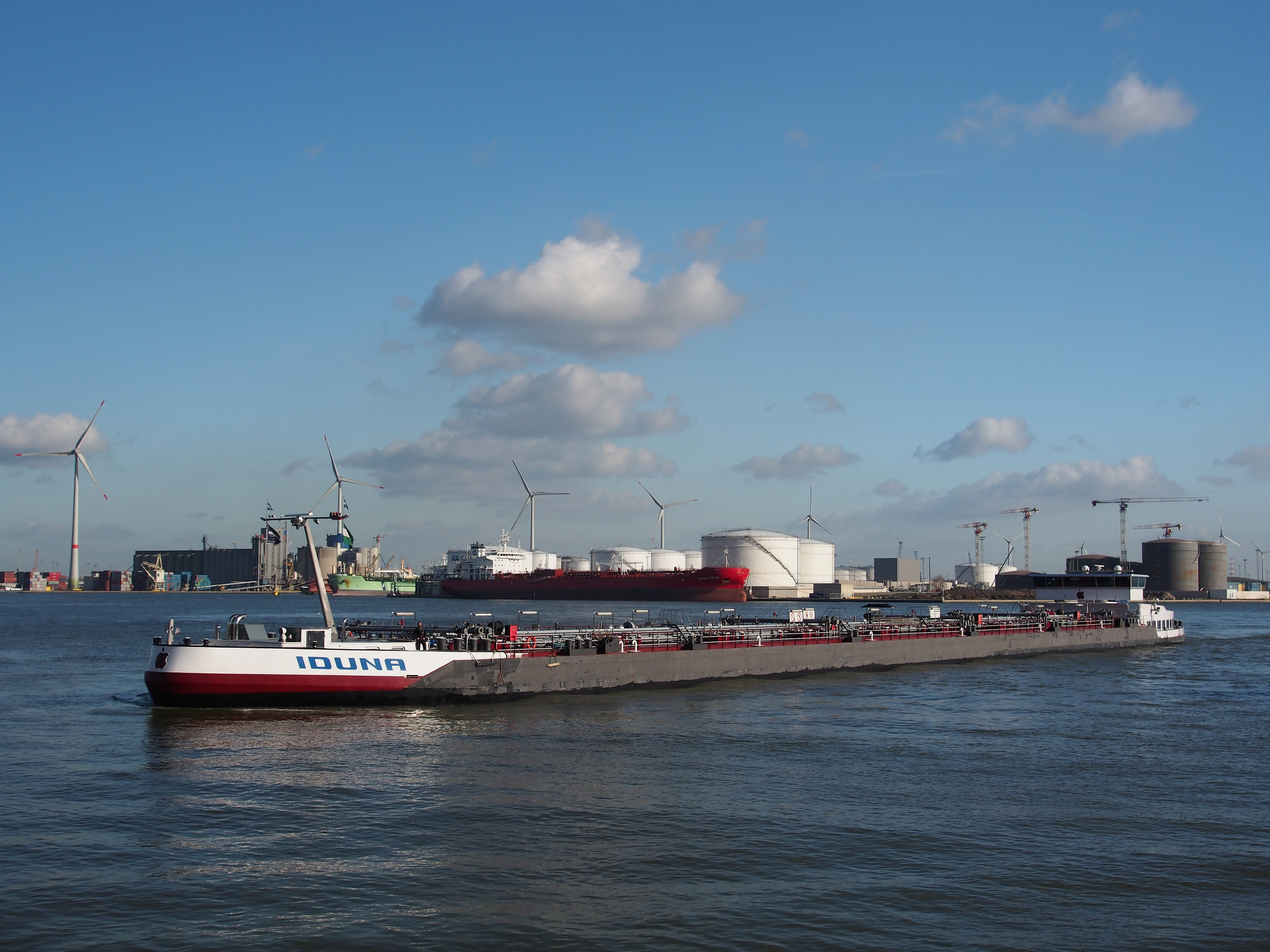 Photographed at Antwerp.